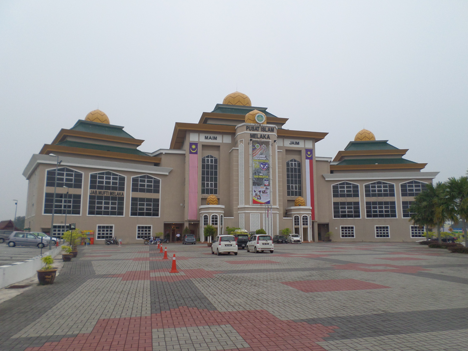 Melaka Islamic Center, Bukit Baru, Melaka City, Central Melaka, Melaka, MalaysiaBahasa Melayu: Pusat Islam Melaka, Bukit Baru, Bandaraya Melaka, Melaka Tengah, Melaka, Malaysia